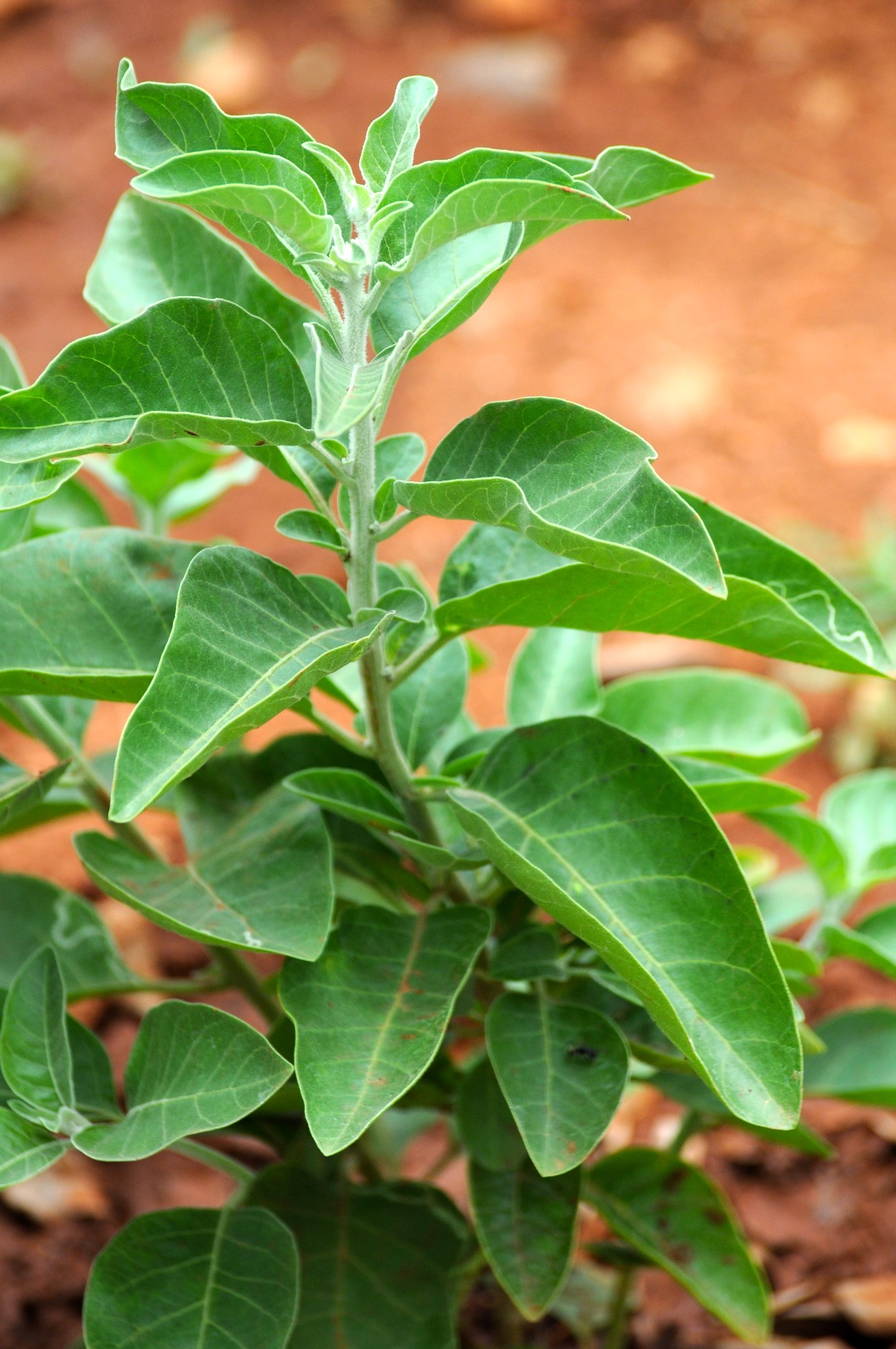 Withania somnifera